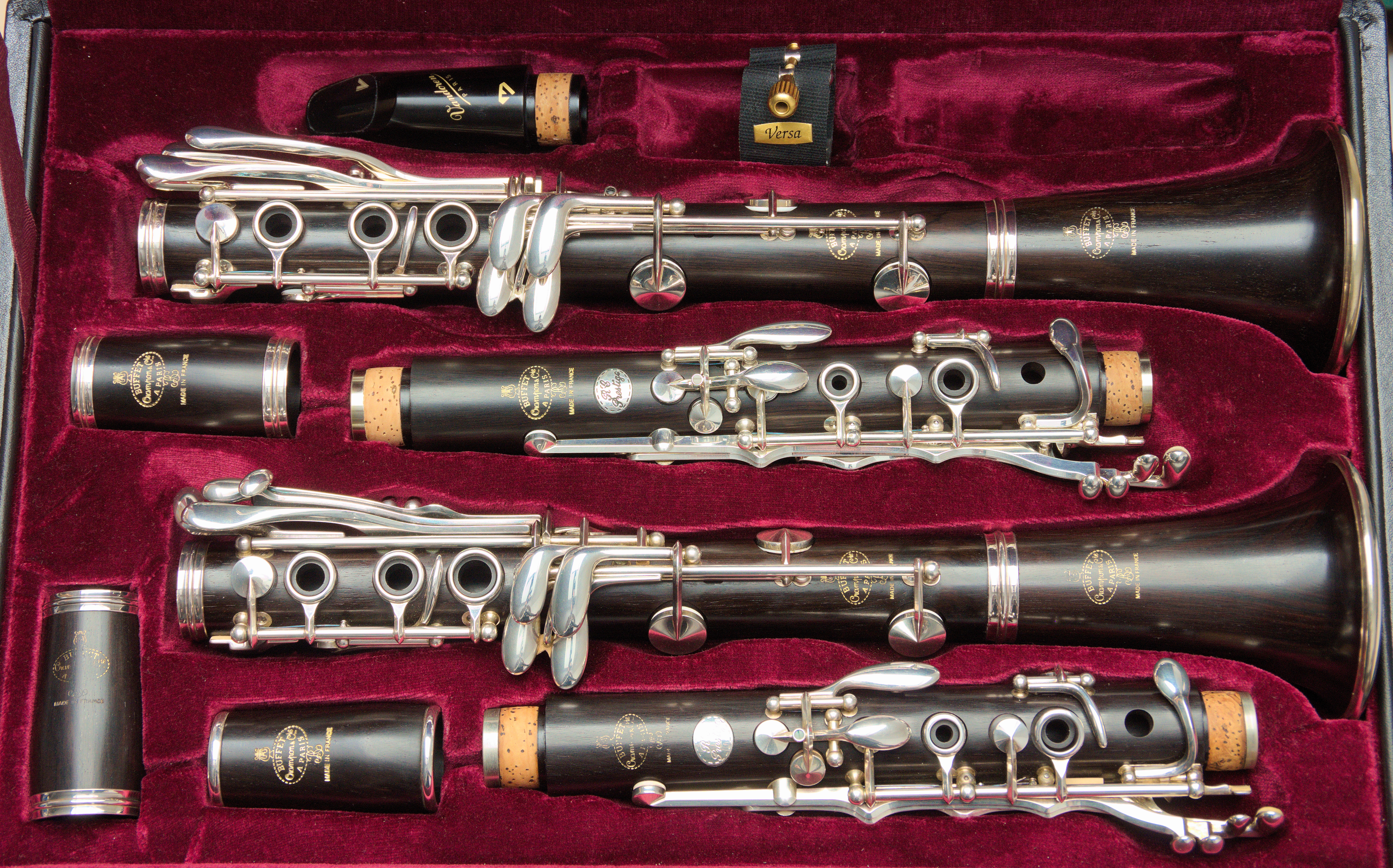 Buffet Crampon clarinets RC Prestige in B-flat (bottom) and A (top) in double case. (Mouthpiece Vandoren BD5, ligature Rovner Versa. Additional ICON barrel.)